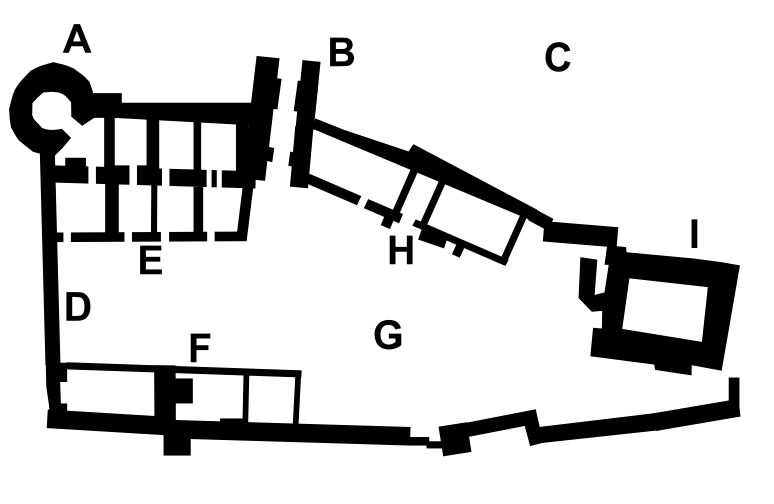 Plan of Brough Castle; after Charlton, "Brough Castle", pp.10-11 and others